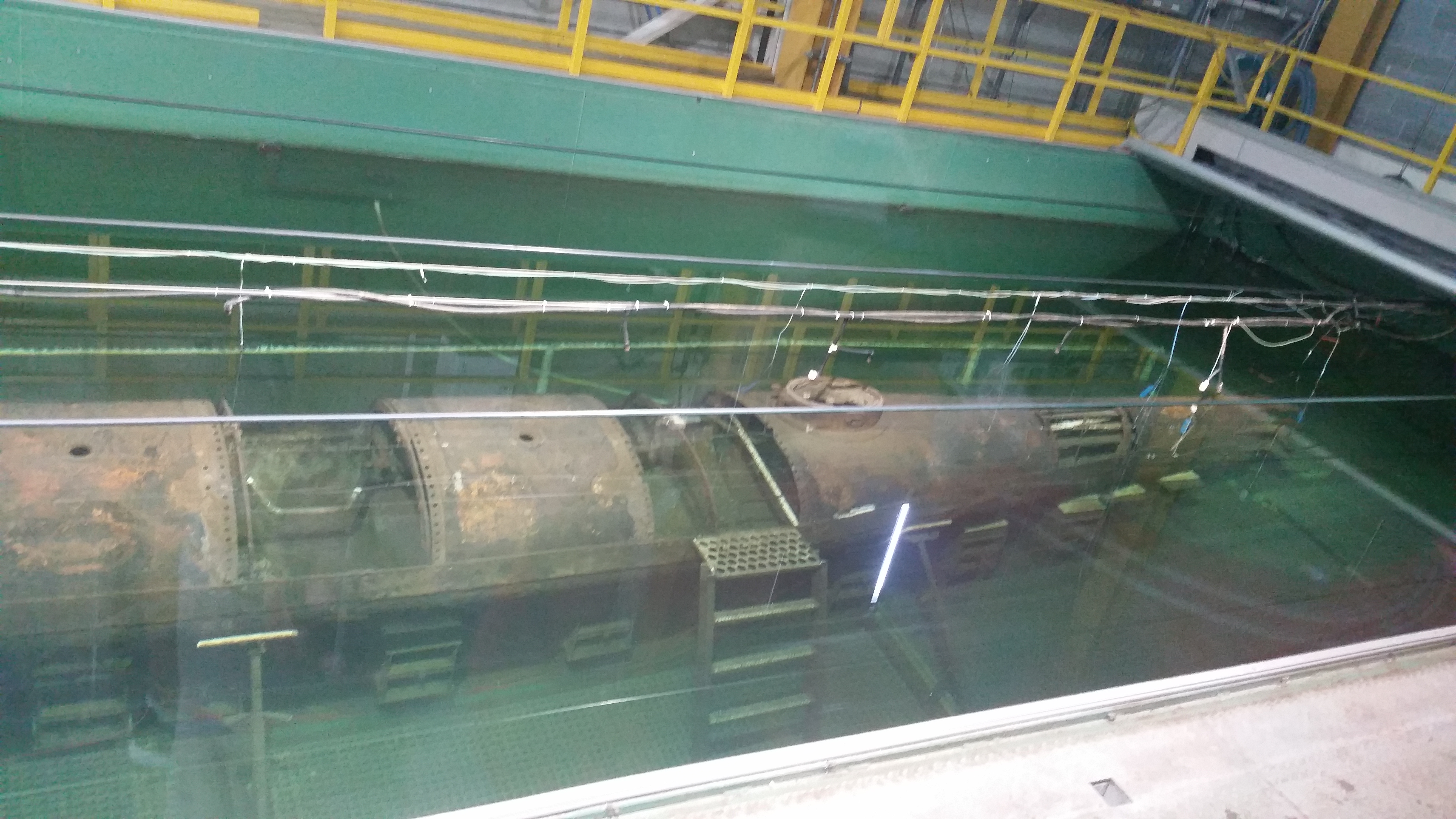 H. L. Hunley in sodium hydroxide bath (3)